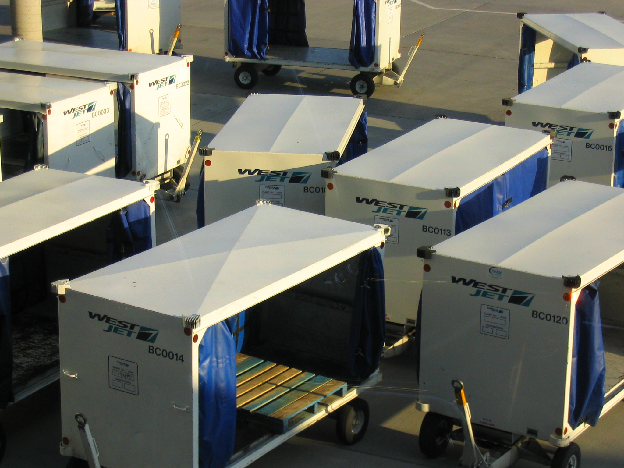 Empty cargo bins of the airline WestJet. At Calgary International airport.WestJet cargo bins